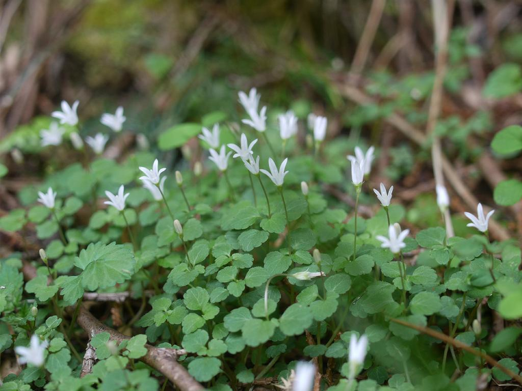 Peracarpa carnosa var. circaeoides (Campanulaceae)